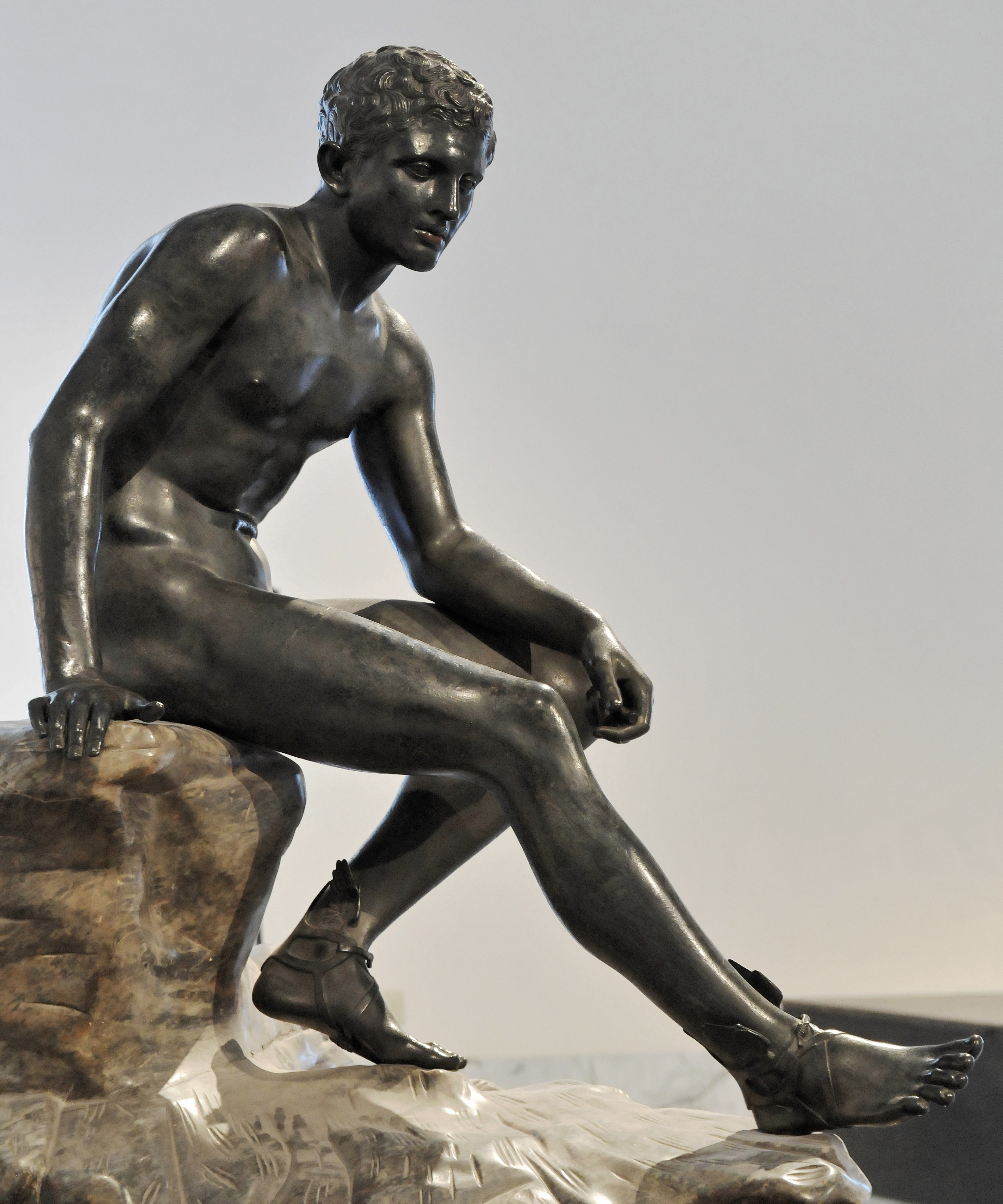 Young seated Hermes at rest.